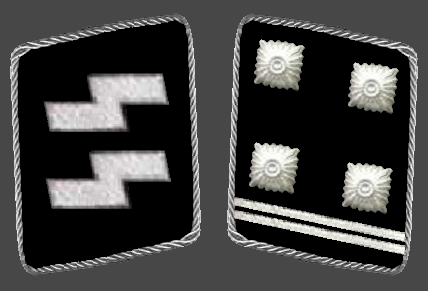 Rang insignia of the SS/Waffen-SS, here universal collar patches to the CO-rank “SS-Obersturmbannfuehrer” until 1945.